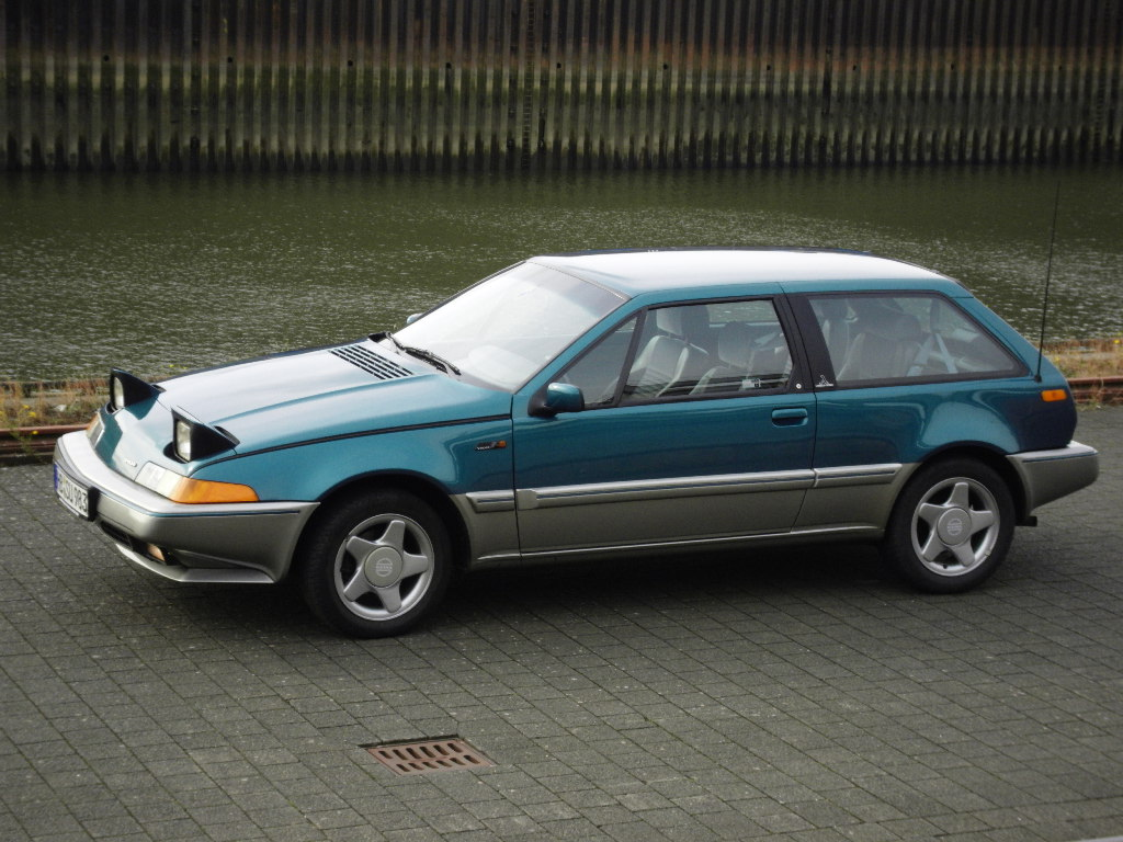 Volvo 480 Two Tone, offered in 1992 only